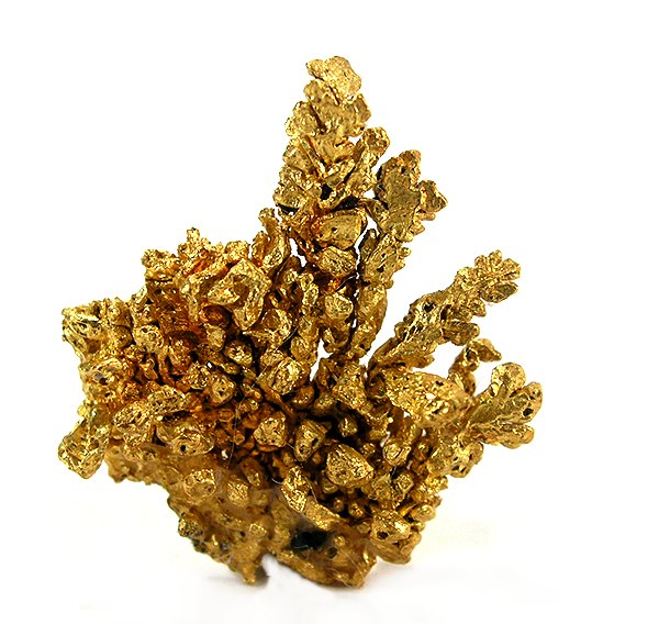 Gold Locality: California, USA (Locality at ) This is a very showy dendritic native gold specimen, which greatly resembles a Christmas tree. This came labelled as Colorado - I could be wrong but am pretty sure it is Californian 1.7 x 1.6 x 0.3 cm